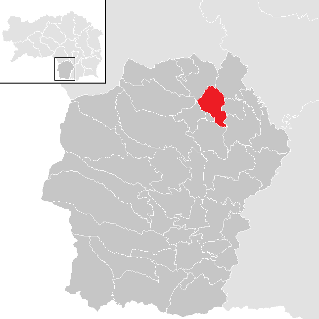 District Deutschlandsberg, Styria, Austria